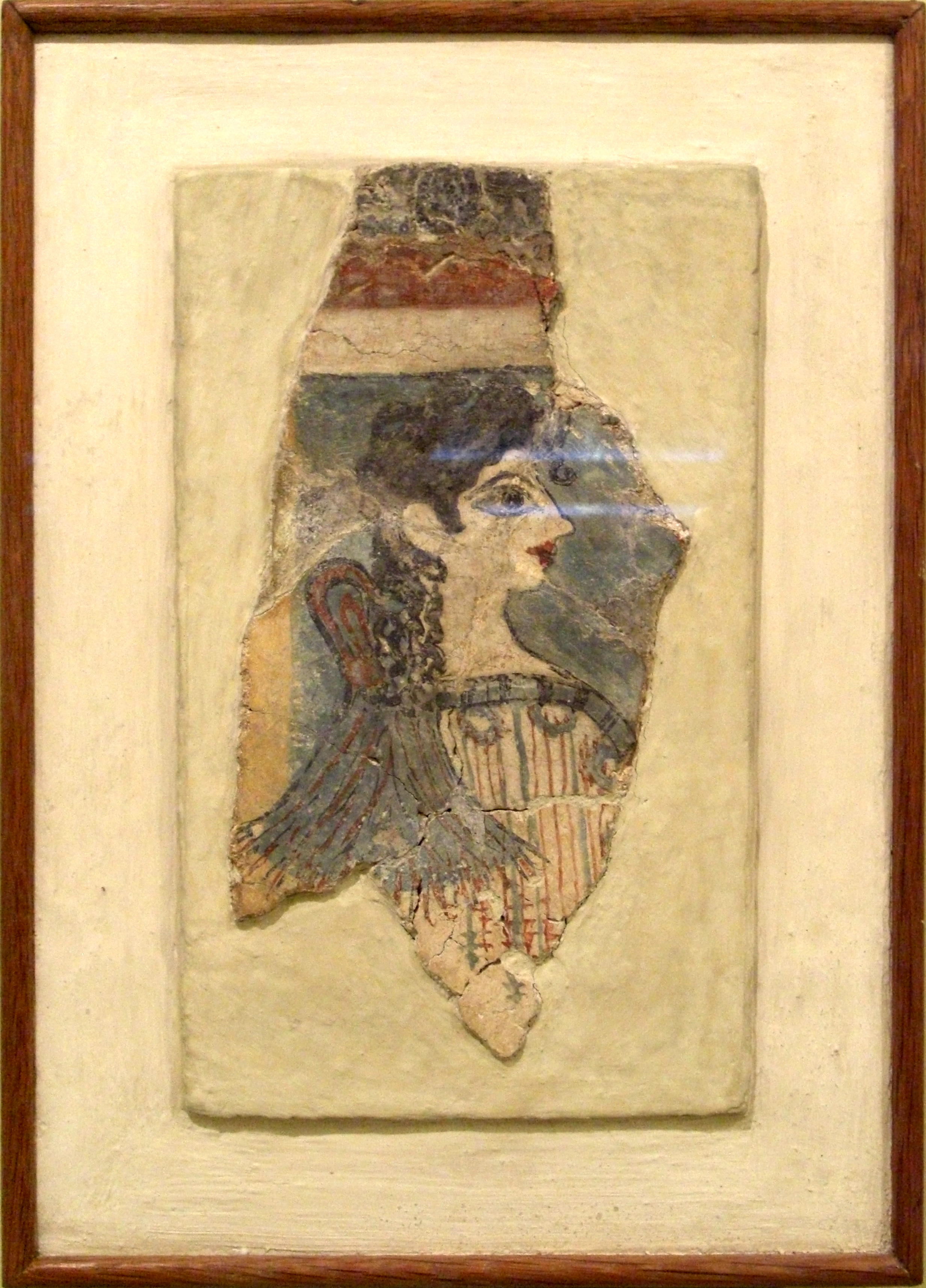 Wall painting found at Knossos on Crete. About 1500 BC. On display in the Archeological Museum of Iraklio.